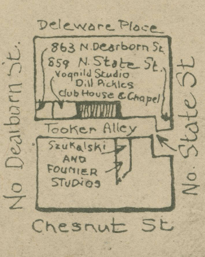 Dill Pickle Club House and Chapel, Wednesday, March 2nd Opens New Series of One Act Plays, (March 2, 1921)